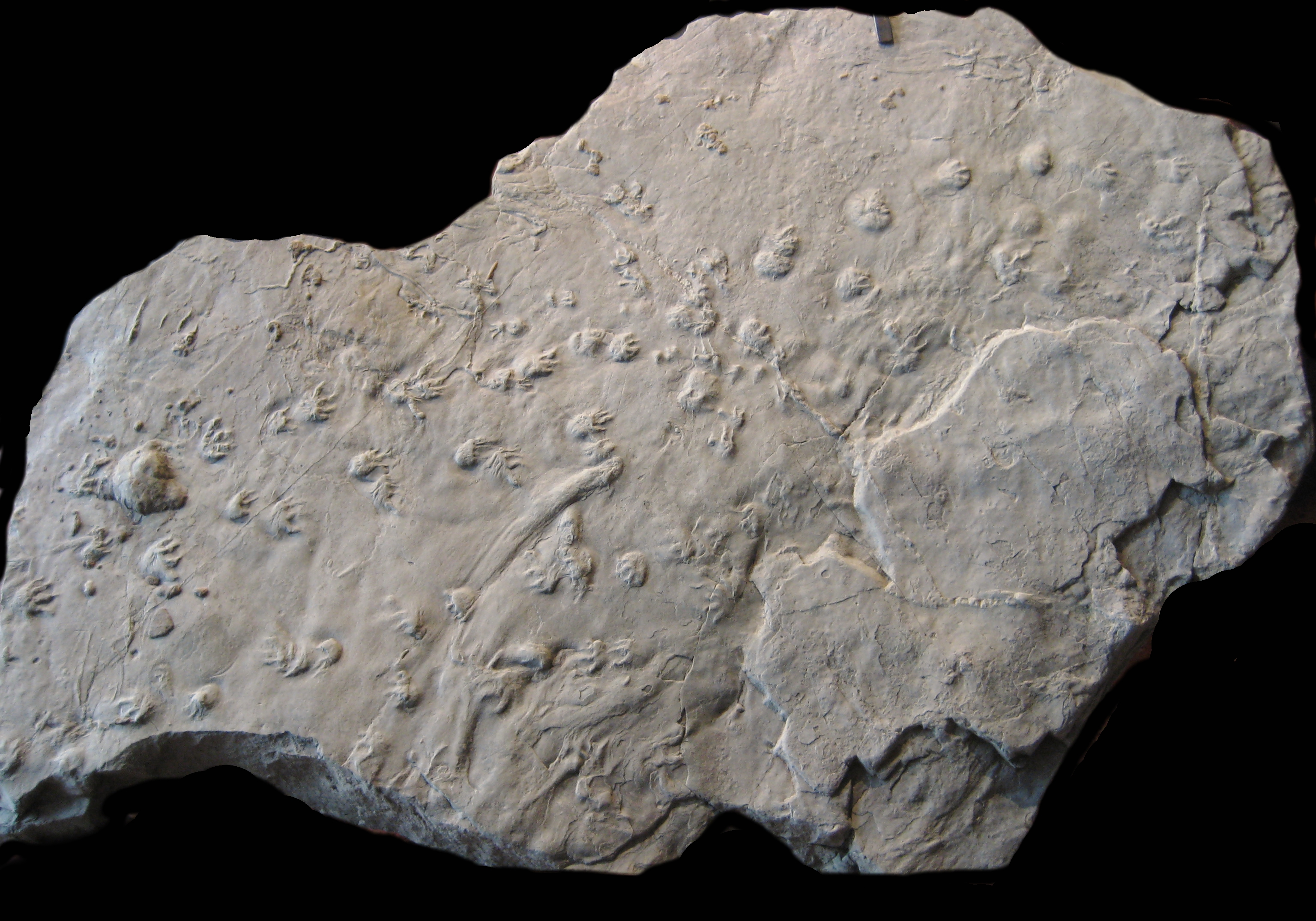 Footprints on the base of a sandstone from the Pennsylvanian Joggins Formation.